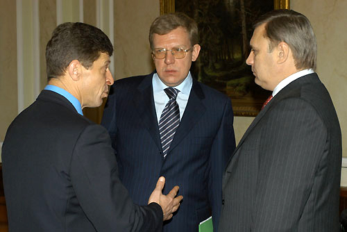 THE KREMLIN, MOSCOW. President Putin before meeting with Government members. Left to right, Dmitry Kozak, the deputy head of the Presidential Executive Office, Deputy Prime Minister Alexei Kudrin and Prime Minister Mikhail Kasyanov.